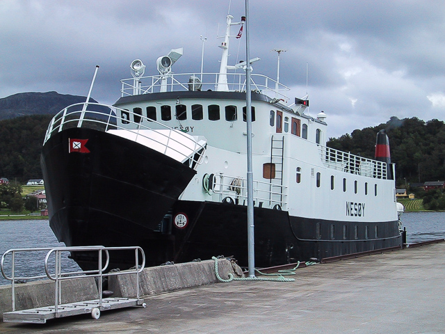 MF Nesøy at Askvoll ferry terminal in 2001